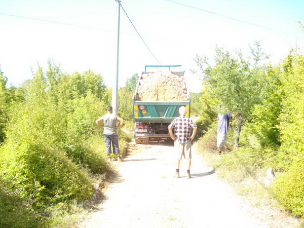 stanojevici